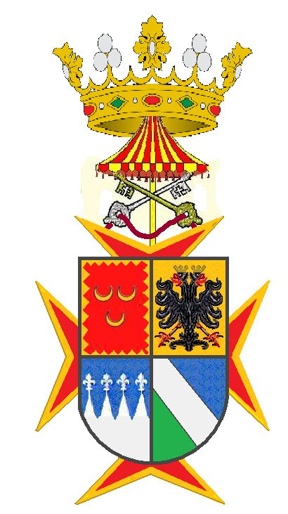 The augmented arms of Marchese Serlupi